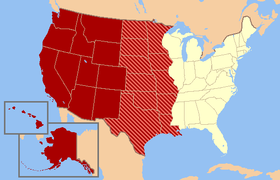 The maps series from the English wikipedia's Wikiproject: United States regions. The maps attempt to show, the various definitions of the regions without endorsing one over another.